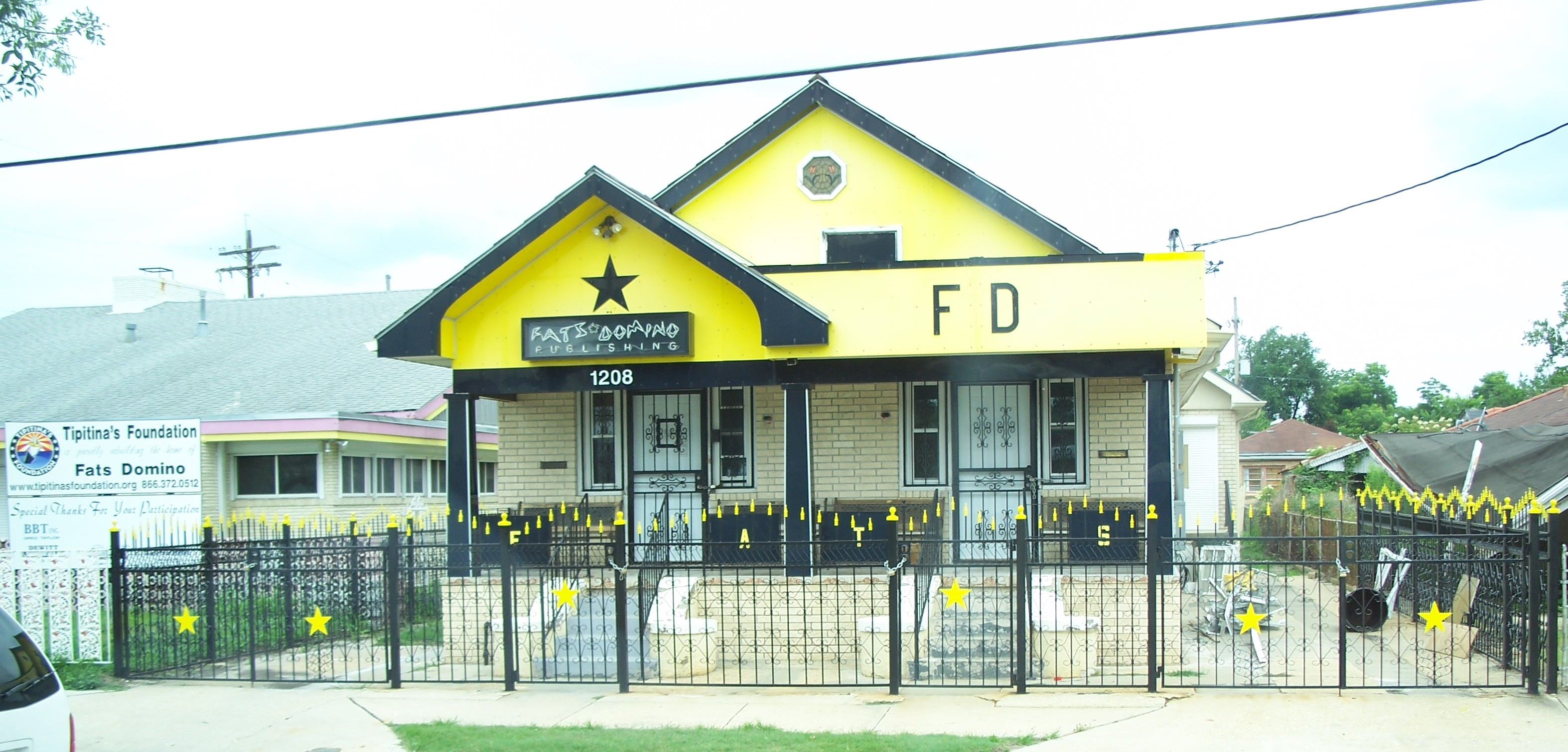 Fats Domino's office, Lower 9th Ward, New Orleans. June 2007